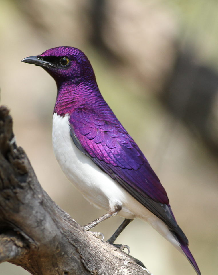 Violet-backed Starling Cinnyricinclus leucogaster, male, at Pilanesberg National Park, Northwest Province, South Africa